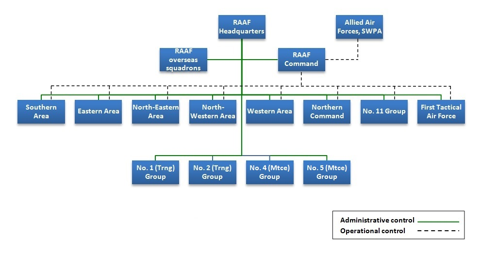 Royal Australian Air Force higher organisation as at August 1945.